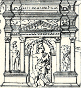 Arch of Domitian as depicted on the Haterii tomb (early second century CE)